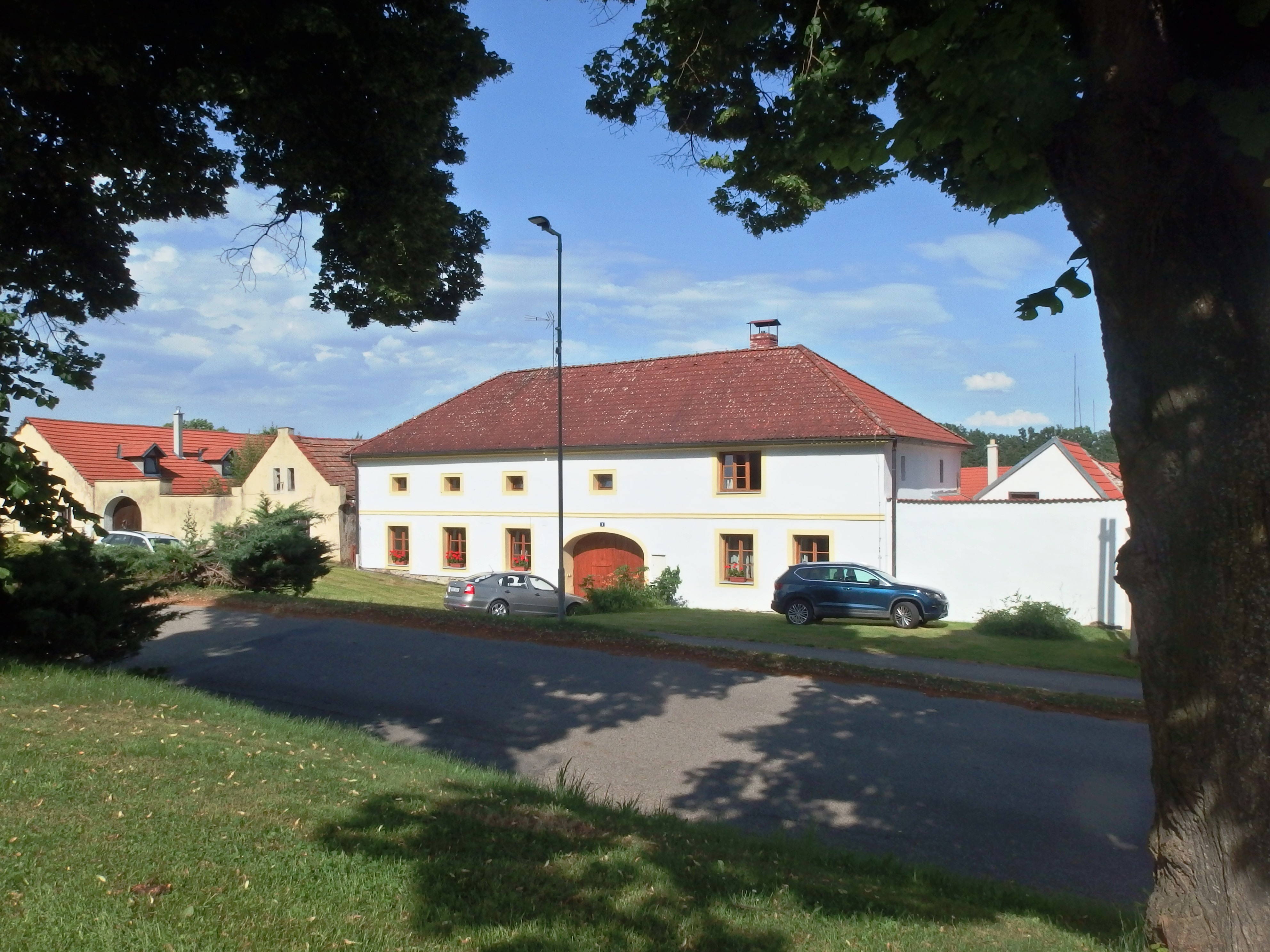 Mirkovice, Český Krumlov District, Czechia.